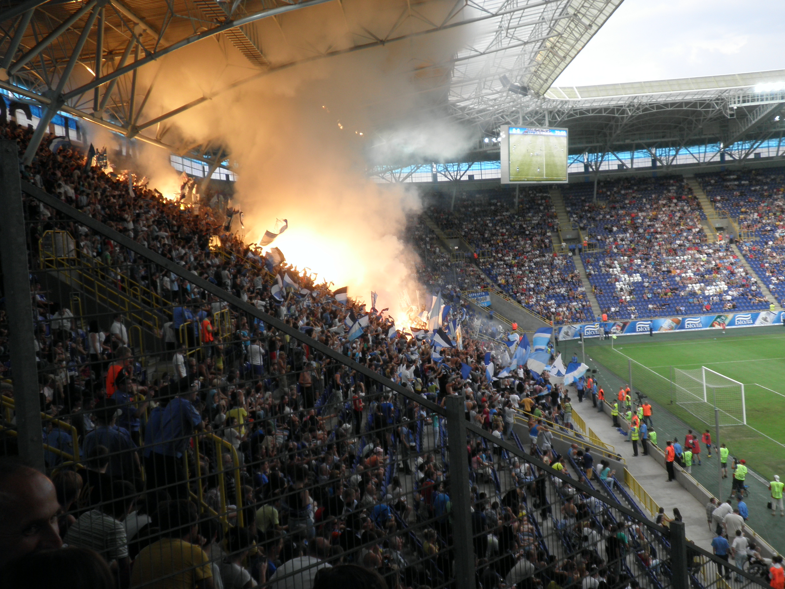 Supporters of the FC Dnipro